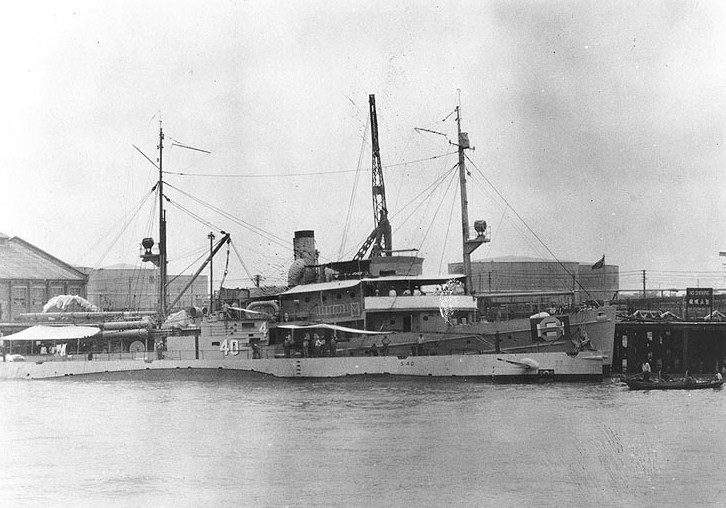 USS S-40 (SS-145) Alongside USS Pigeon (ASR-6), at Shanghai, China, 1932 - cropped This file is a work of a sailor or employee of the U.S. Navy, taken or made as part of that person's official duties. As a work of the U.S. federal government, it is in the public domain in the United States. This file has been identified as being free of known restrictions under copyright law, including all related and neighboring rights.